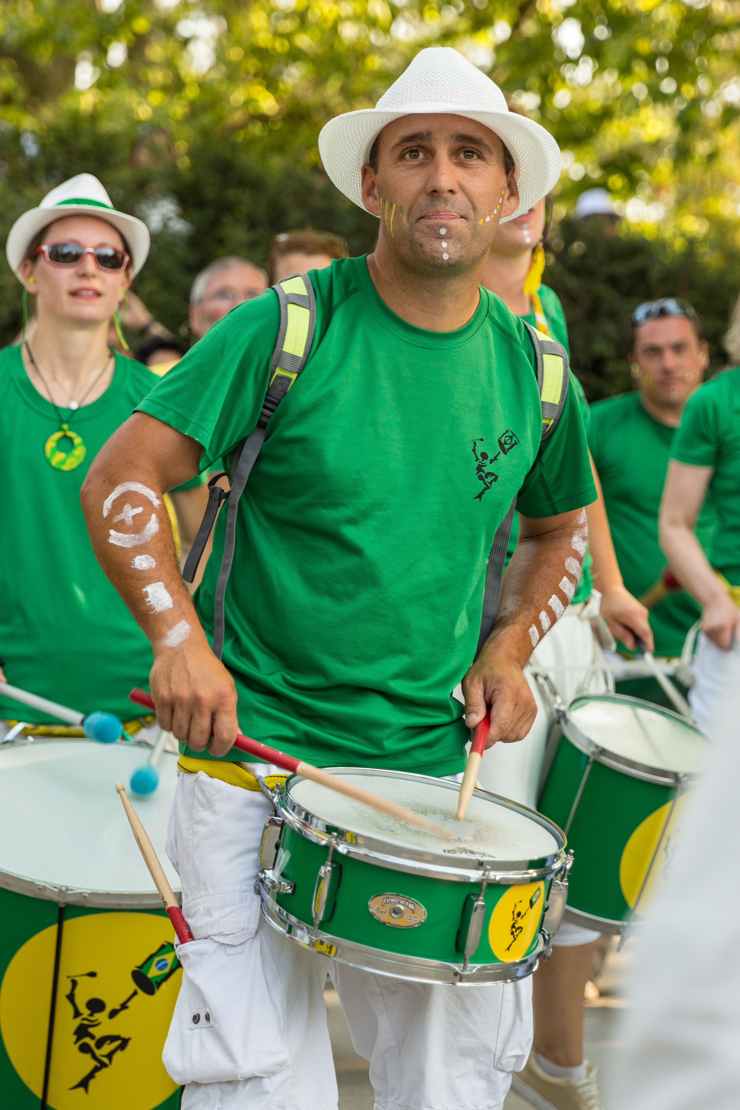 Group Tribal Percussion marching in Annecy (France) playing Brazilian percussion: the Batucada. Website